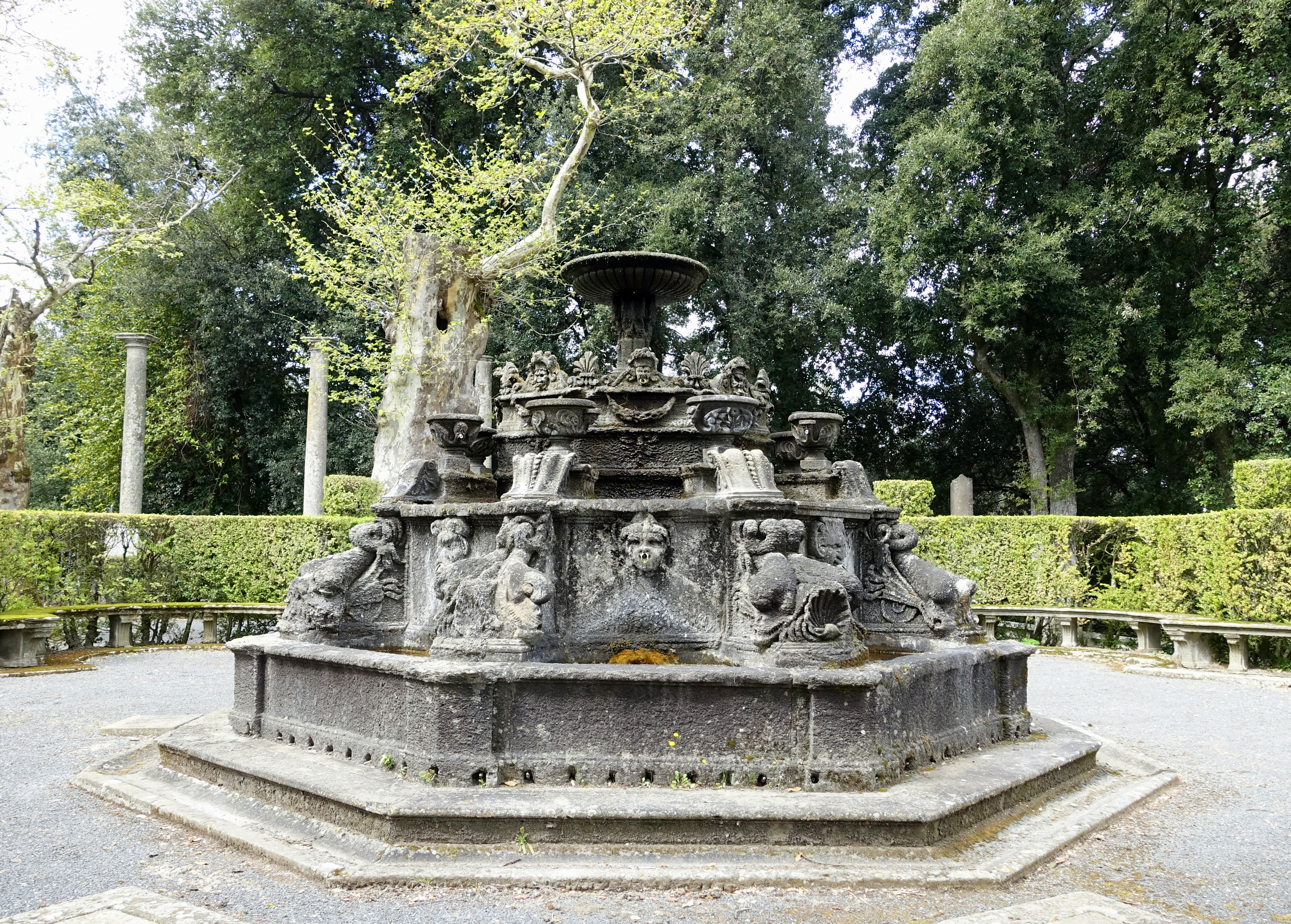 Fountain of the Dolphins - Villa Lante, Bagnaia, Italy.